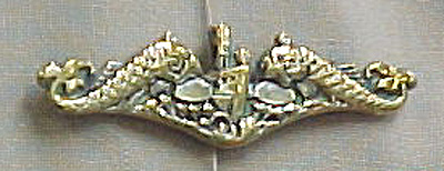 Dolphin insignia, US govt. source One hundred and five officers and men went down with the SS Argonaut January 10, 1943. Perishing onboard Argonaut, with his 104 shipmates, was Chief Quartermaster George S. Jenkins. Although Chief Jenkins went down with the submarine, a set of his ‘dolphins’ (submarine warfare insignia) survived the war. In fact they are still in service 57 years later.( as of 2000) Chief Jenkins’ grandson, Master Chief Electronics Technician (SS) Roland Jenkins, is the Command Master Chief for Commander Submarine Force, U.S. Pacific Fleet (COMSUBPAC) and wears his grandfather’s dolphins with pride. "I’m very proud of my grandfather’s accomplishments and the fact that he died for his country and died for what he believed in," said Jenkins, "I think about him every day I put on my uniform with his dolphins attached and I try to live up to the high standards he established.".